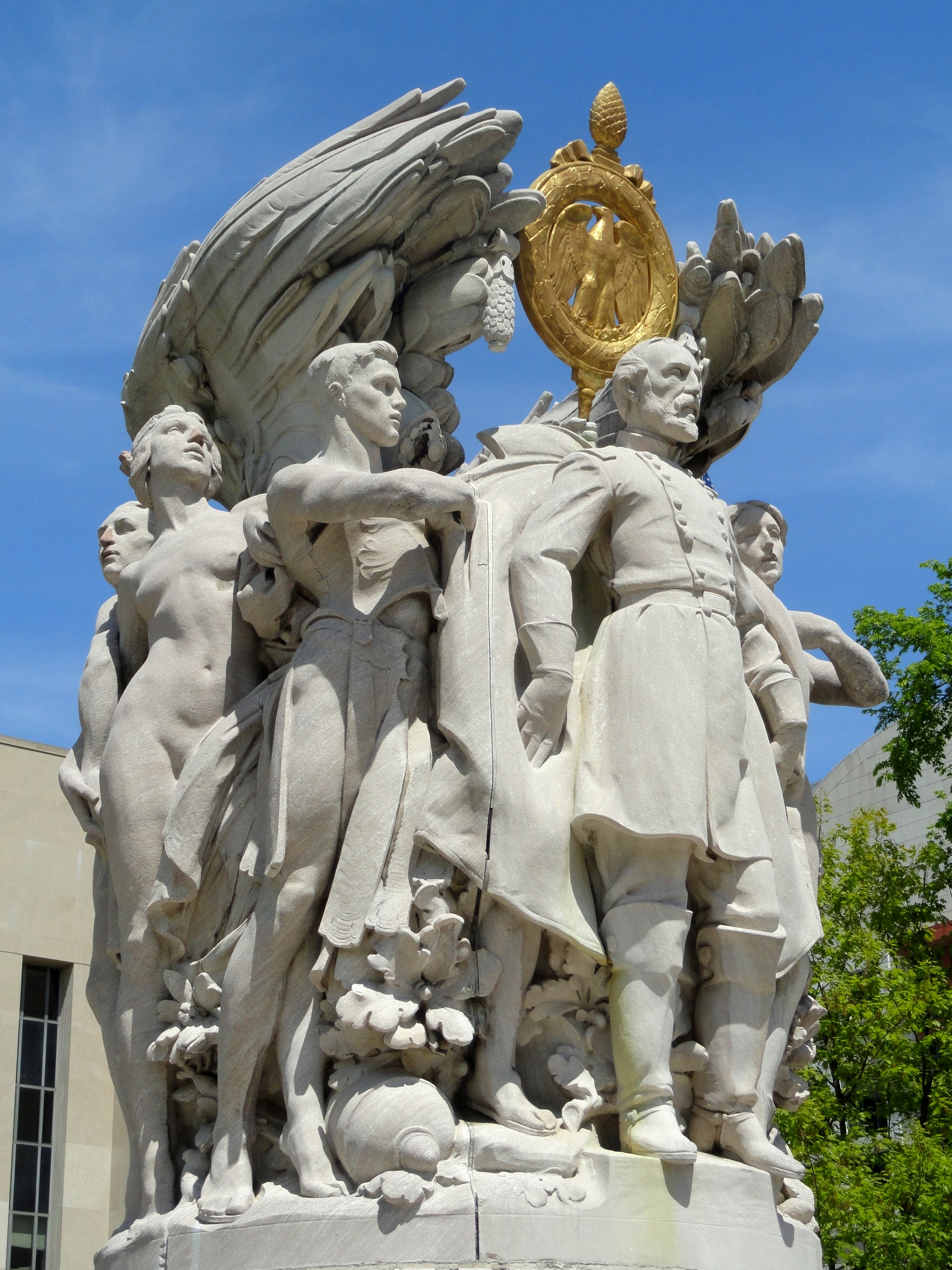 George Meade Memorial, Washington, DC, USA. This artwork is in the public domain because the artist died more than 70 years ago.